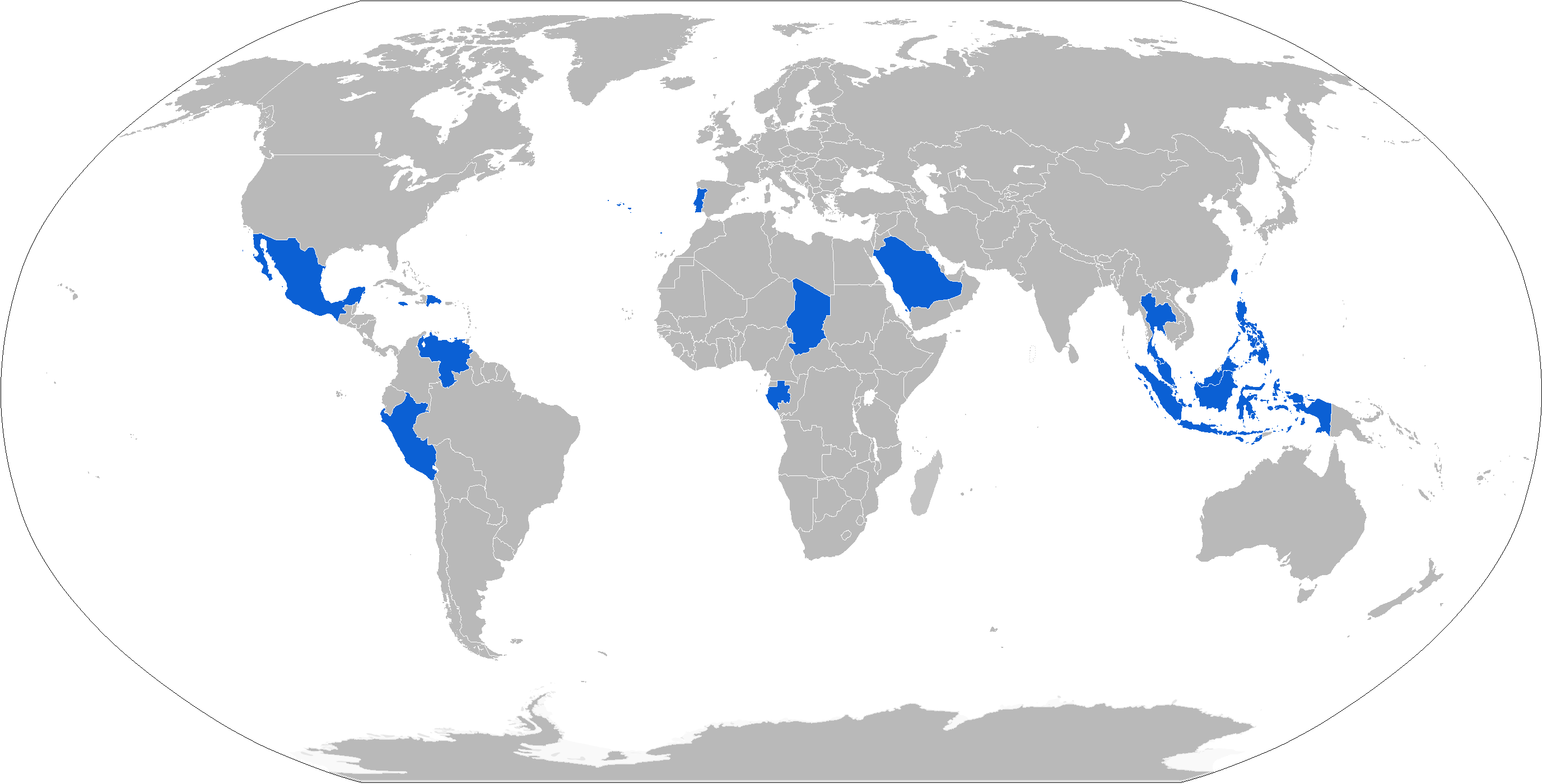 Map of V-150 Commando operators in blue